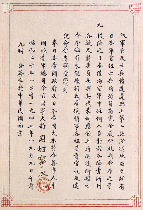 Original surrender document signed by Japanese military commander.日本降书，本页提及“蒋委员长与其代表何应钦上将”。日本陆海空军及其辅助部队向蒋委员长投降。